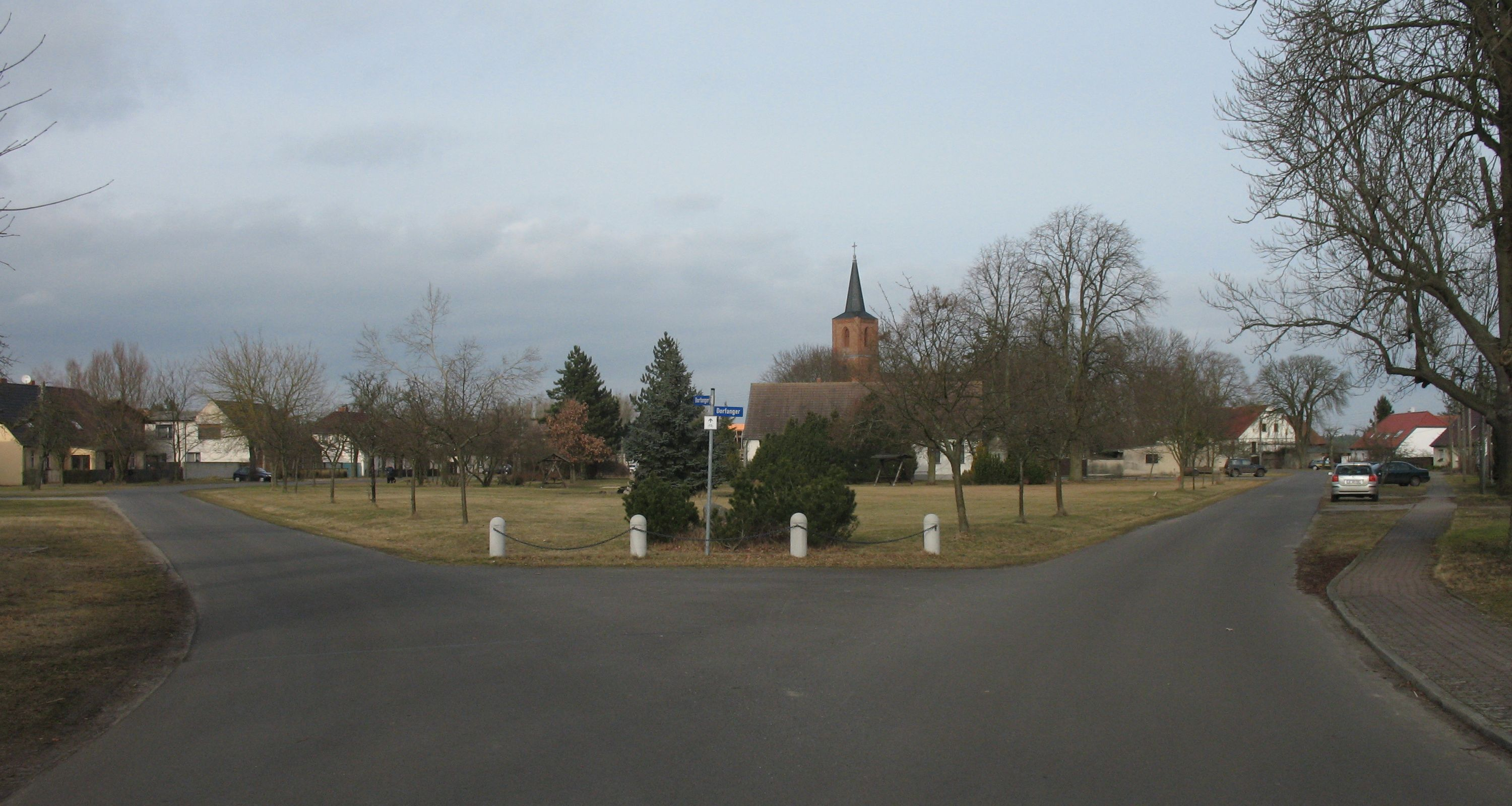 Rundling Zehdenick-Wesendorf in Brandenburg, Germany